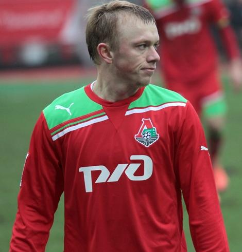 Renat Yanbayev with FC Lokomotiv Moscow.